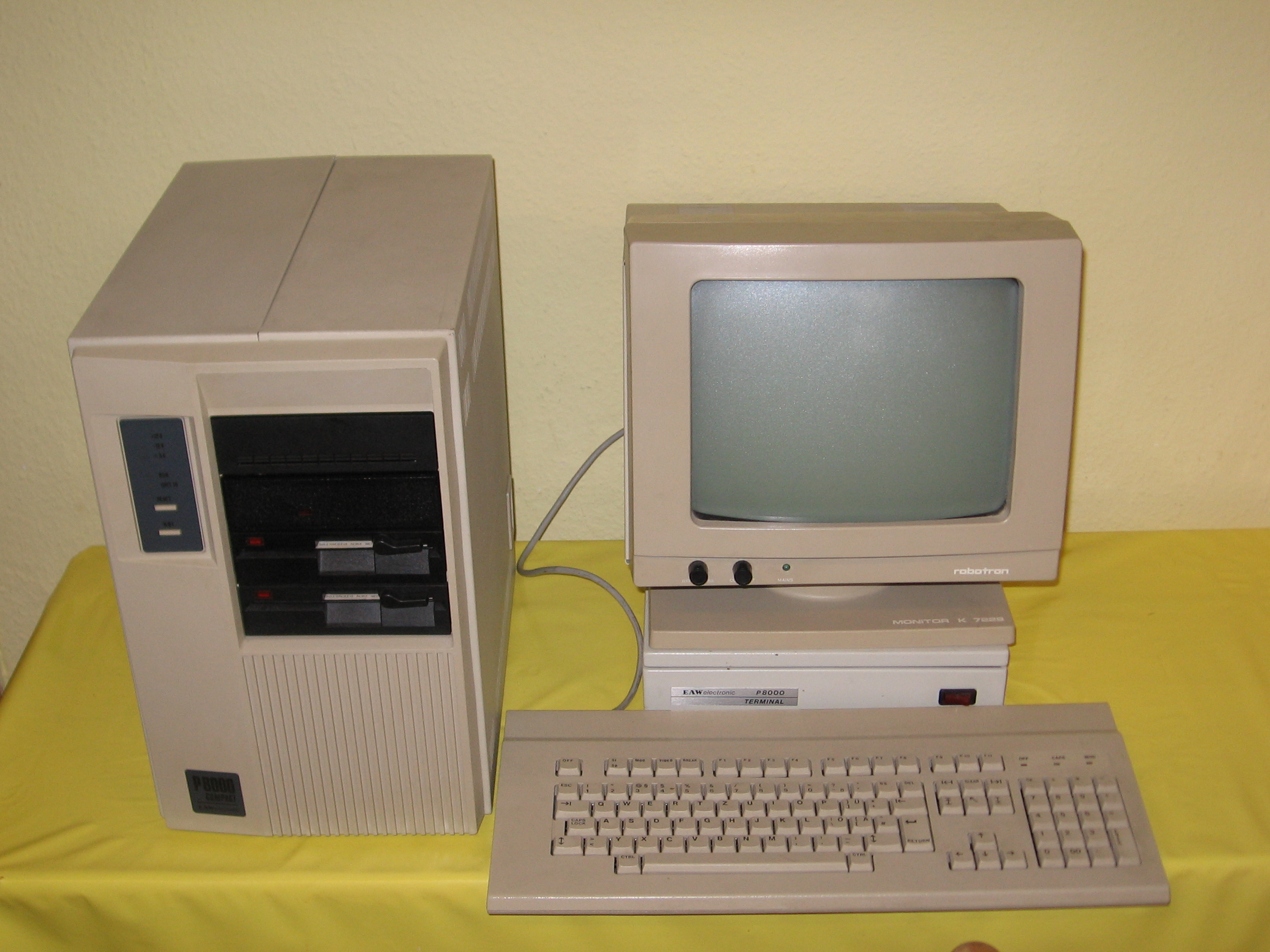 P8000 Compact